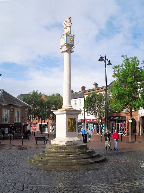 17th-century market cross and sundial in the centre of Carlisle, Cumbria